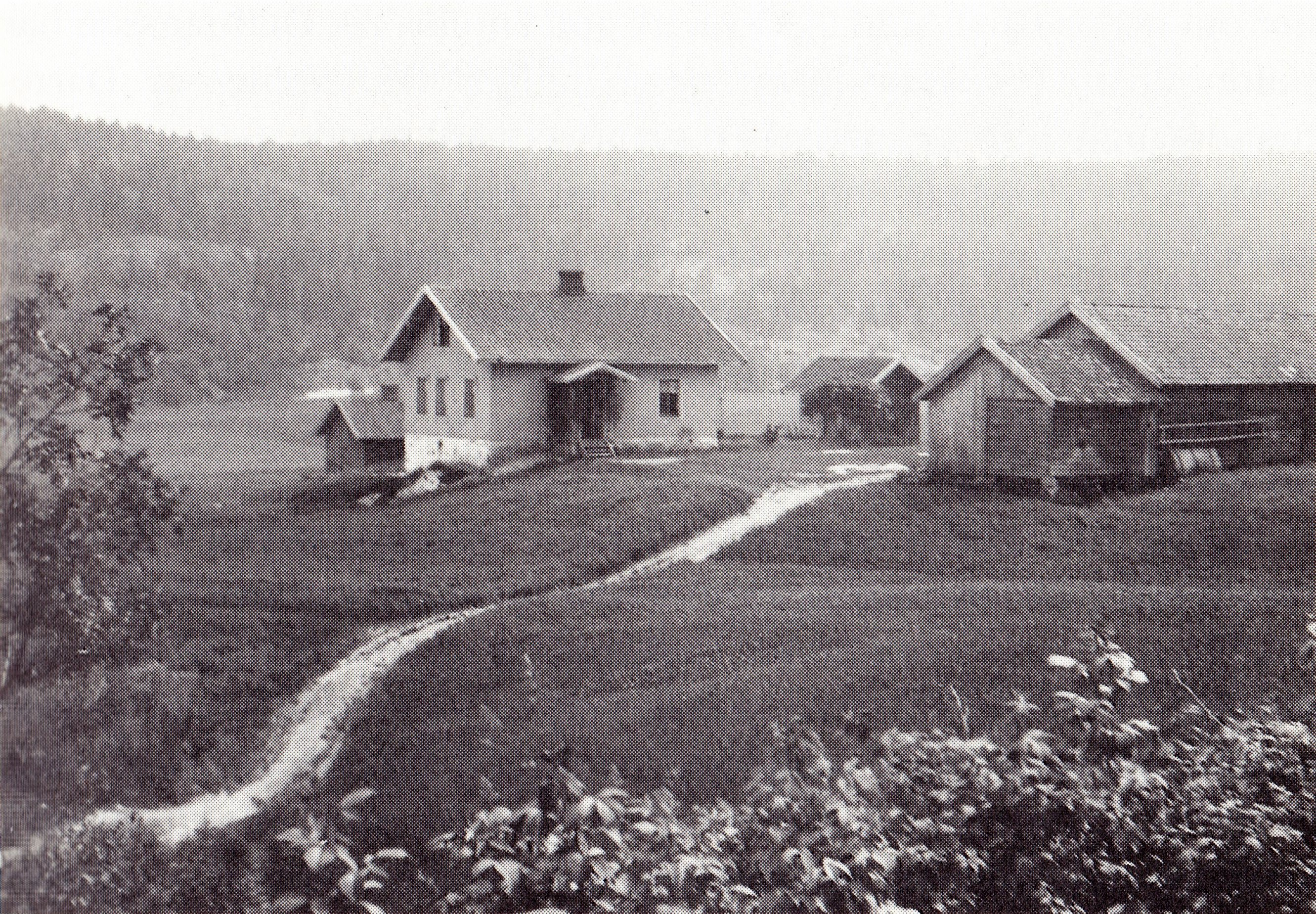 Trygve Gulbranssen's grandfathers farm Vestre Dahl i Frogn.